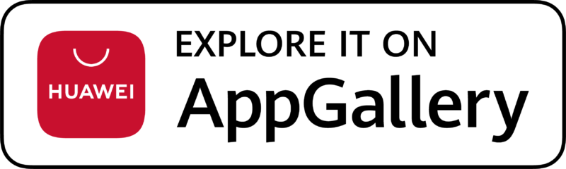 Badge of Huawei AppGallery with the logo of Huawei AppGallery in left, and the text "Explore it on AppGallery" in right on a white background with round and black corners.